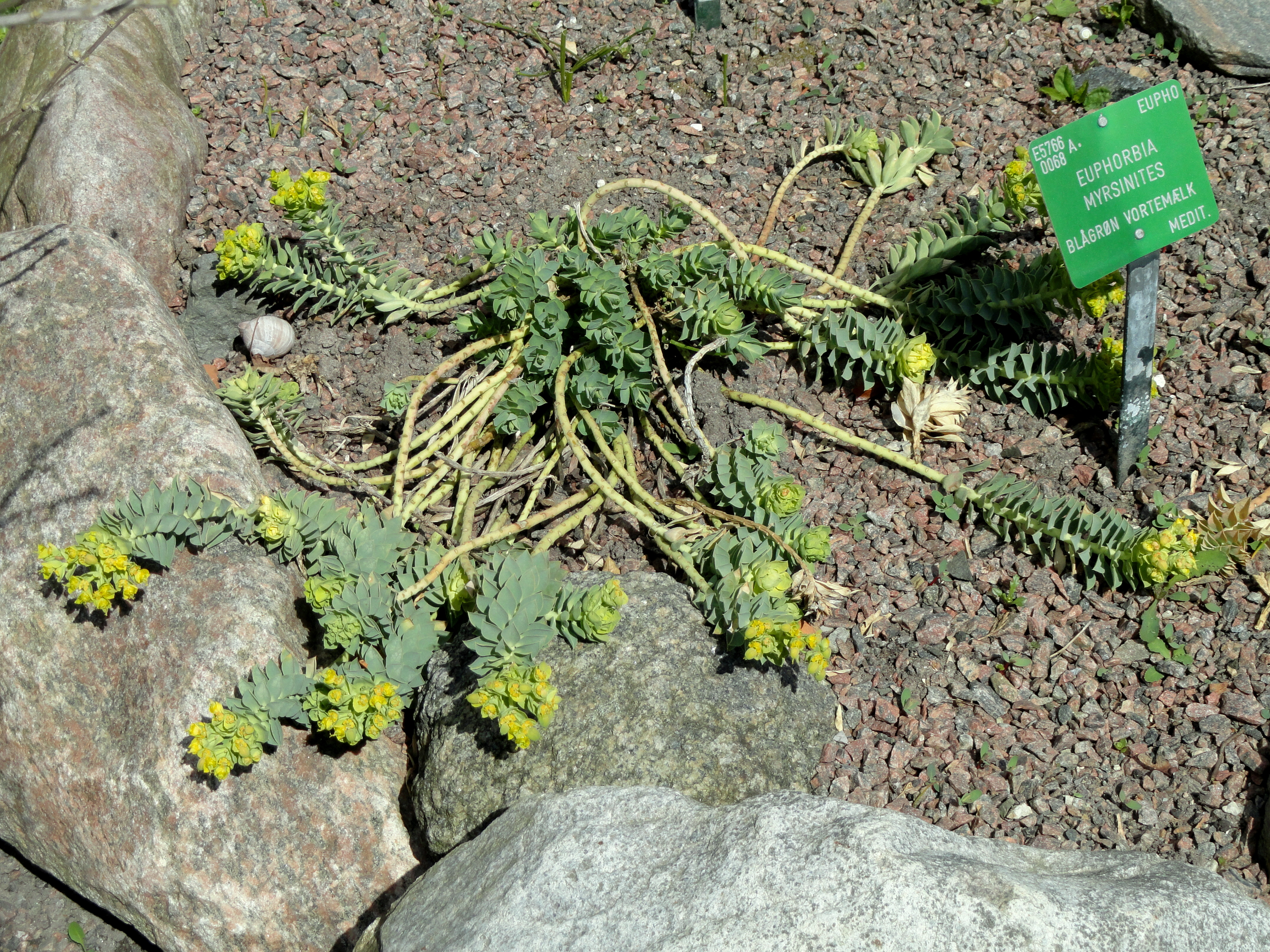 Botanical specimen in the University of Copenhagen Botanical Garden, Copenhagen, Denmark.